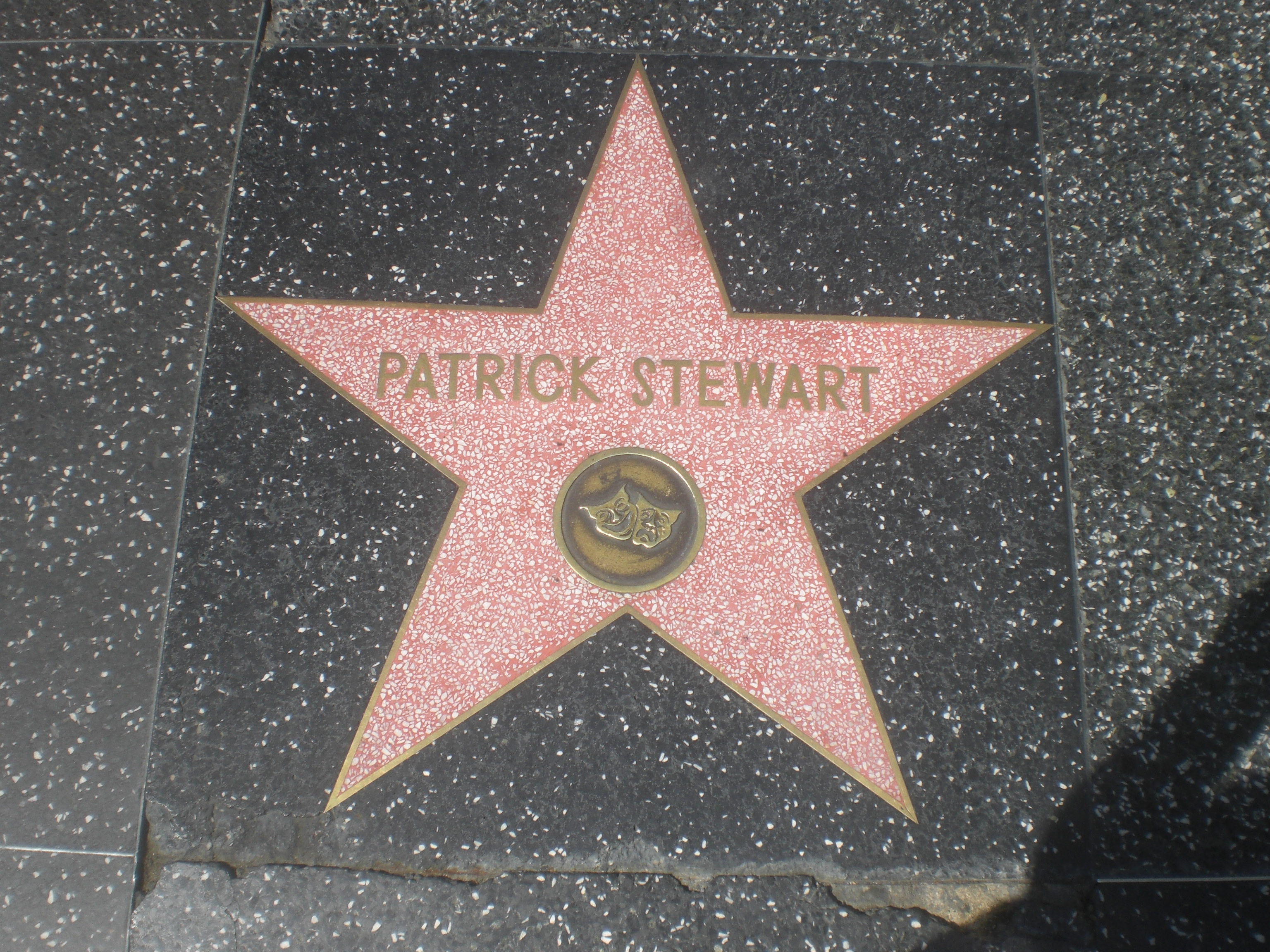 Patrick Stewart's star on the Hollywood Walk of Fame